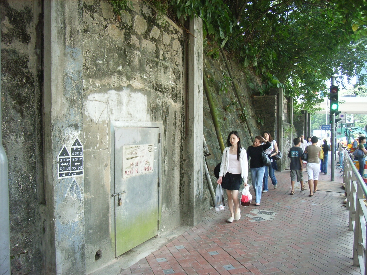 By WARKOTSM - Air-raid shelter at Queen's Road East, near the junction with Queensway, Hong Kong.